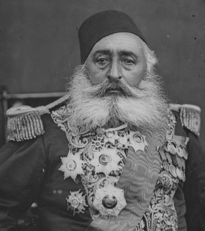 Ismail Pasha photographed from Marubi (1875)